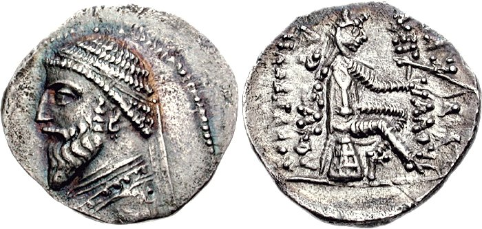 Coin of the Parthian king Artabanos I